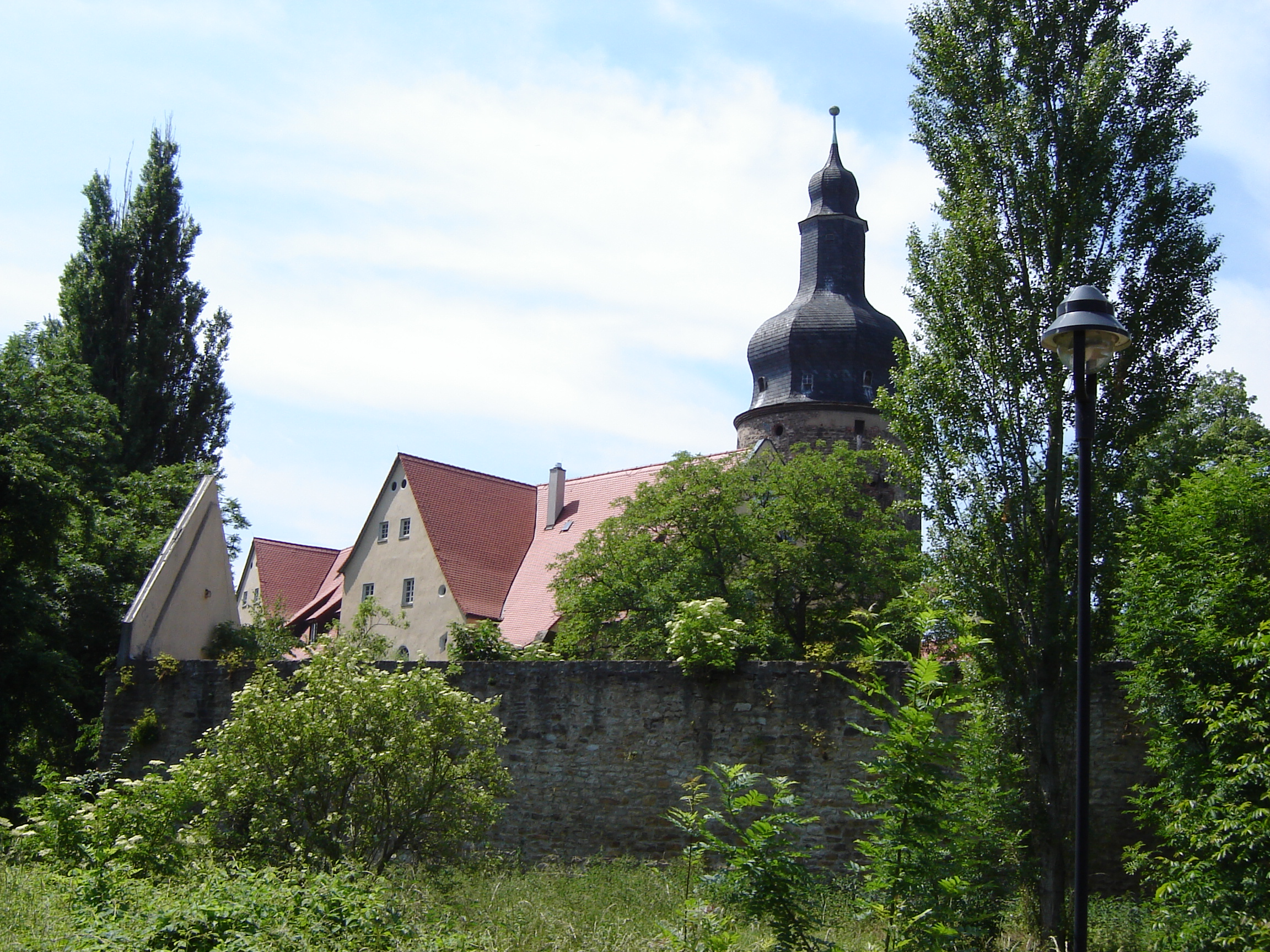 Water castle in Gommern (Saxony-Anhalt)